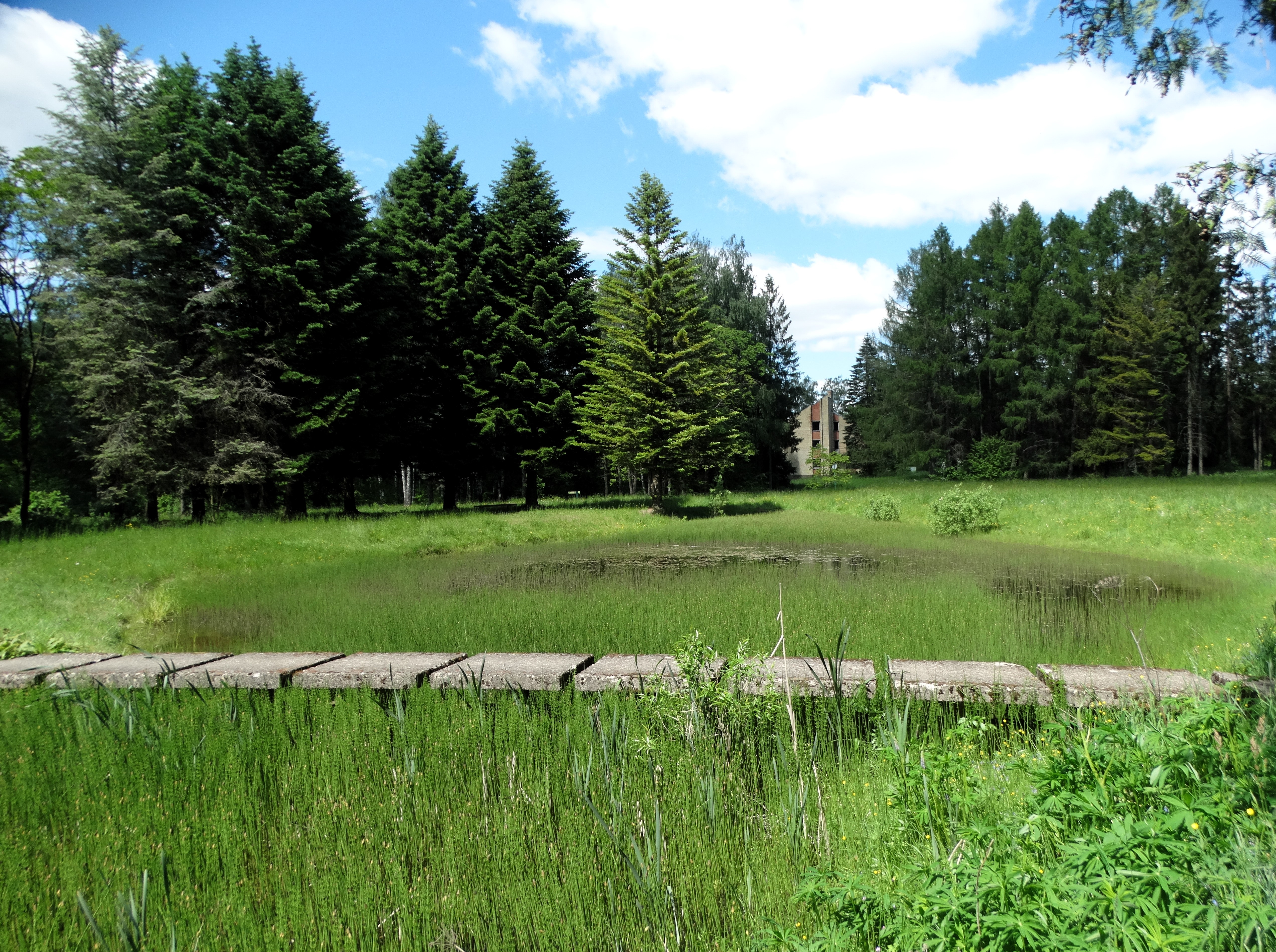 Girionys Park, Kaunas District, Lithuania